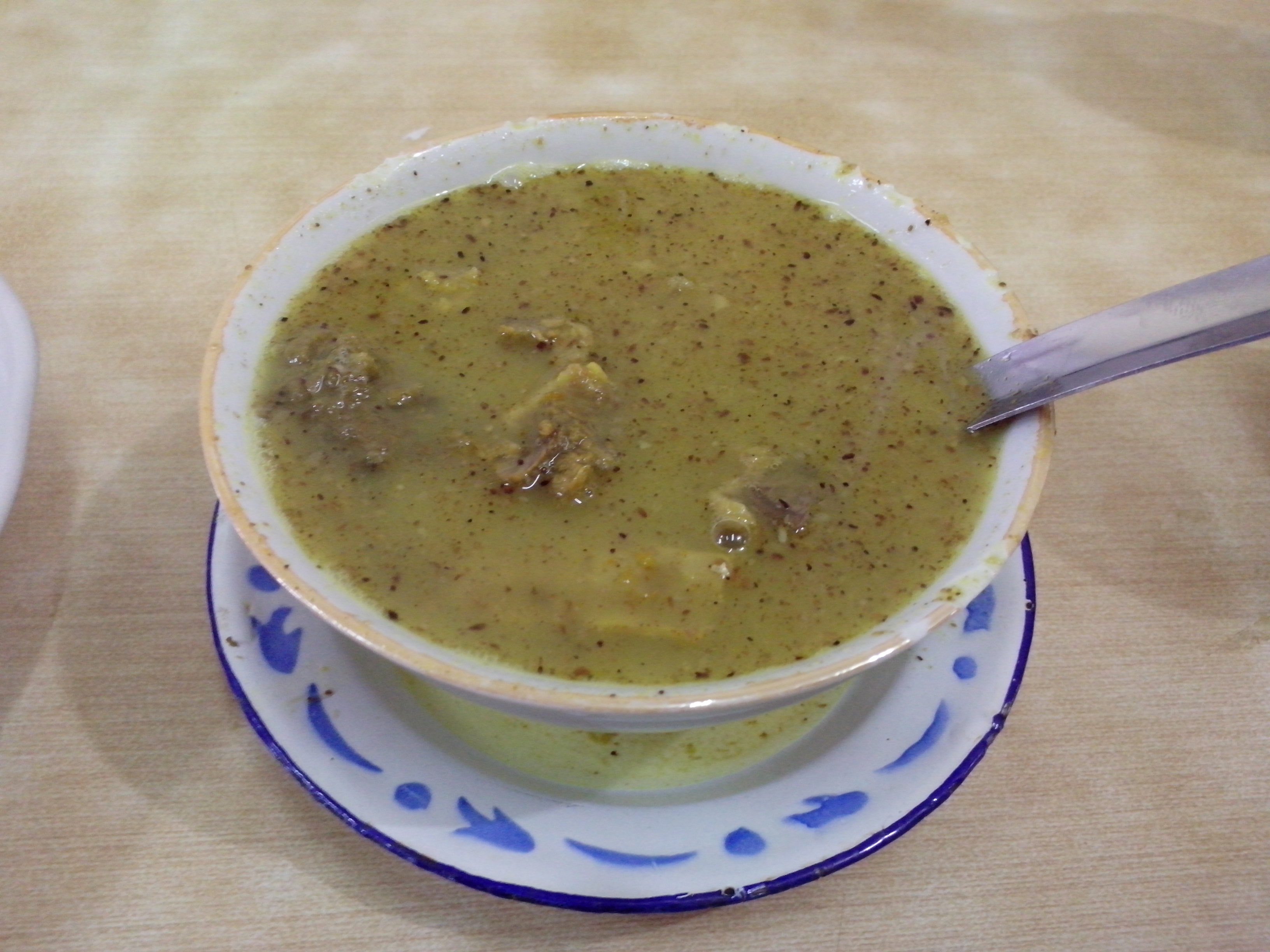 Pallubasa is one of Makassar traditional foods with offal of buffalo or cow as its main ingredient.